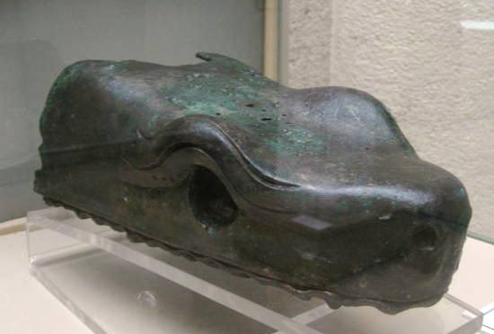 Bronze head of the serpent from the column at the Hippodrome. Kept at the Istanbul Archaelogical Museum. First half of 5th century BCE. Inv. 18 M.